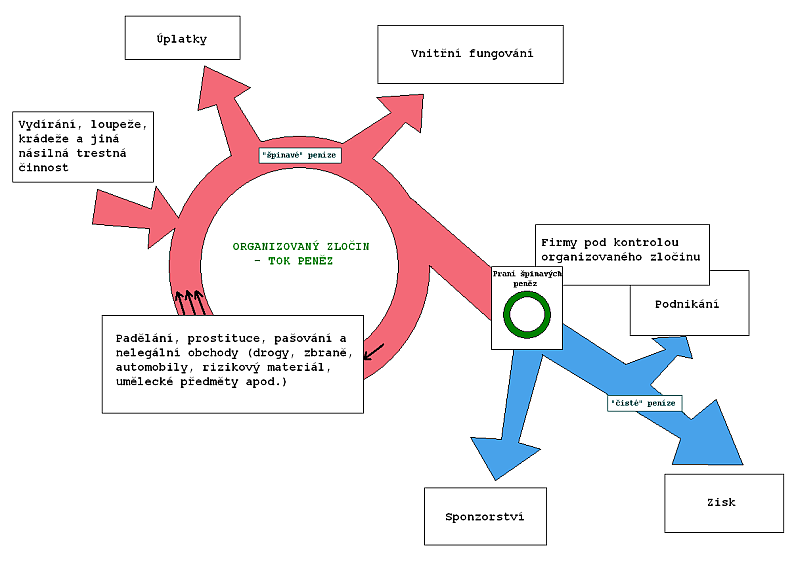 Organised crime - cash flow